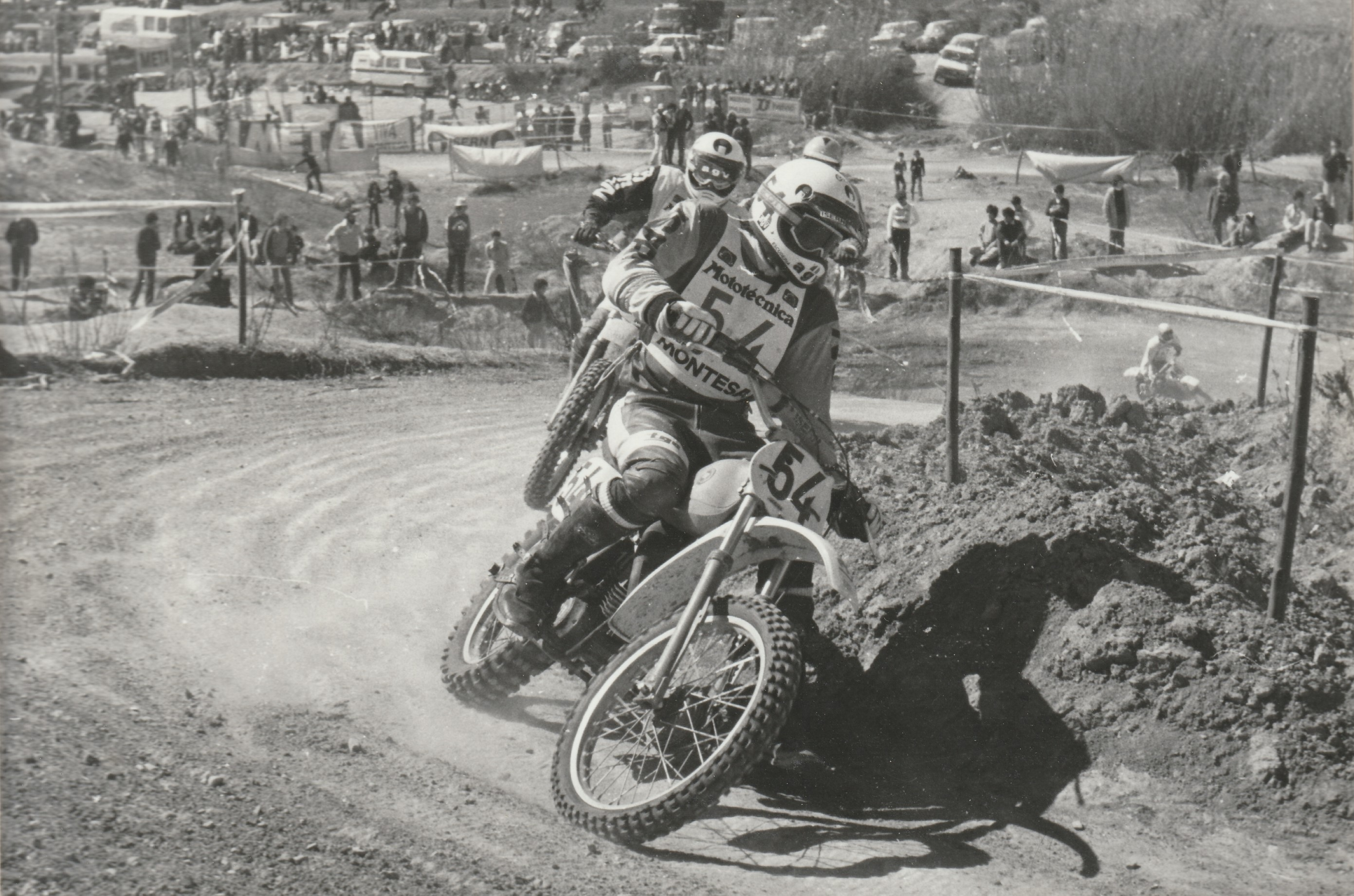 Joaquim Suñol (54) in front of Enric Guillamat during the 1979 Trofeo Montesa in Gallecs